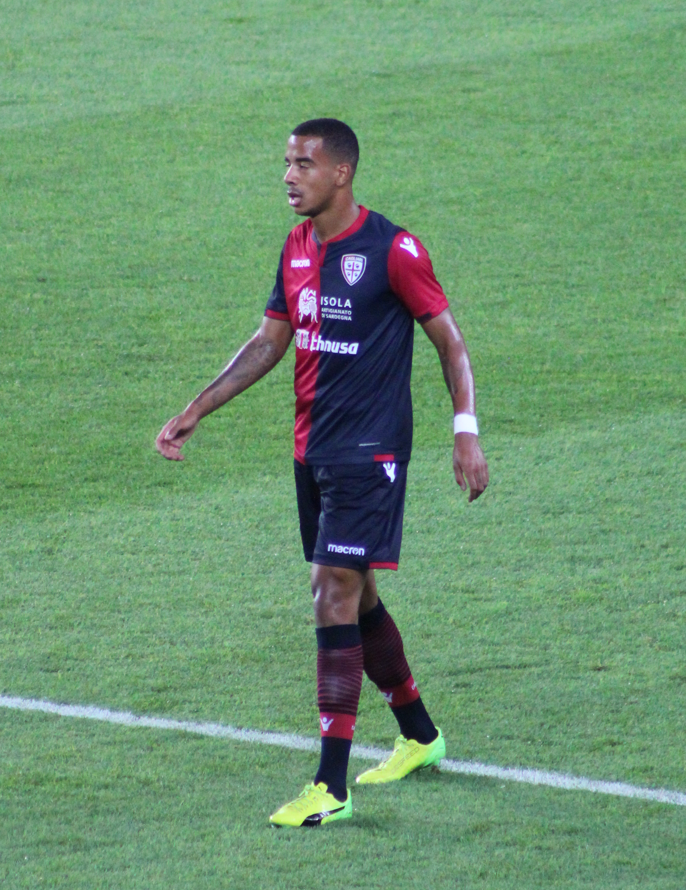 Senna Miangue, Belgian association football player.